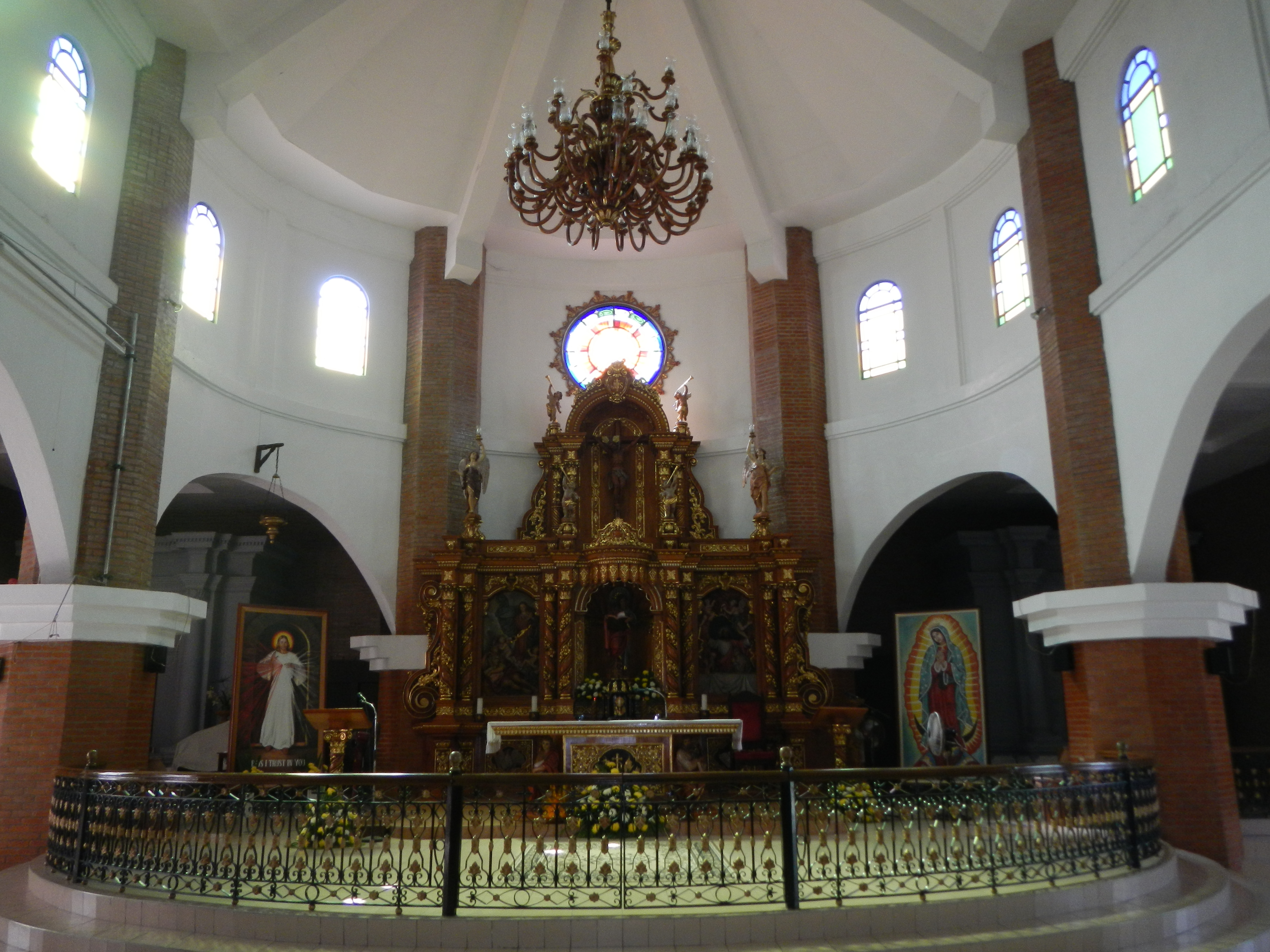 The Sanctuario De San Juan Evangelista (Jovellanos St., Dagupan)[1] is part of the Roman Catholic Archdiocese of Lingayen-Dagupan, Vicariate I:Queen of the Apostles; Msgr. Renato P. Mayugba, DD, the Auxiliary of Lingayen-Dagupan, is the Rector of the Sanctuario de San Juan Evangelista.[2][3]